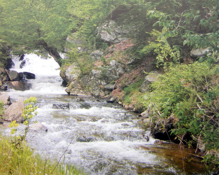 Zletovo River, Republic odf Macedonia